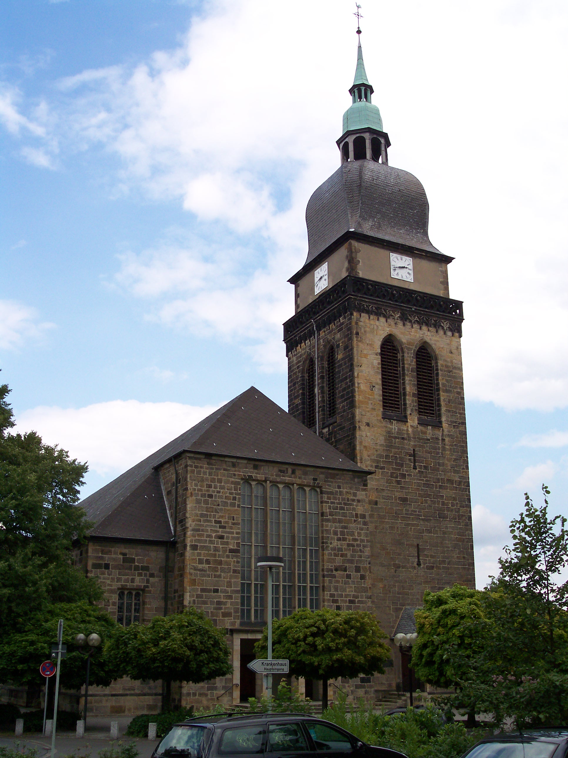 Datteln St. Amandus Kirche